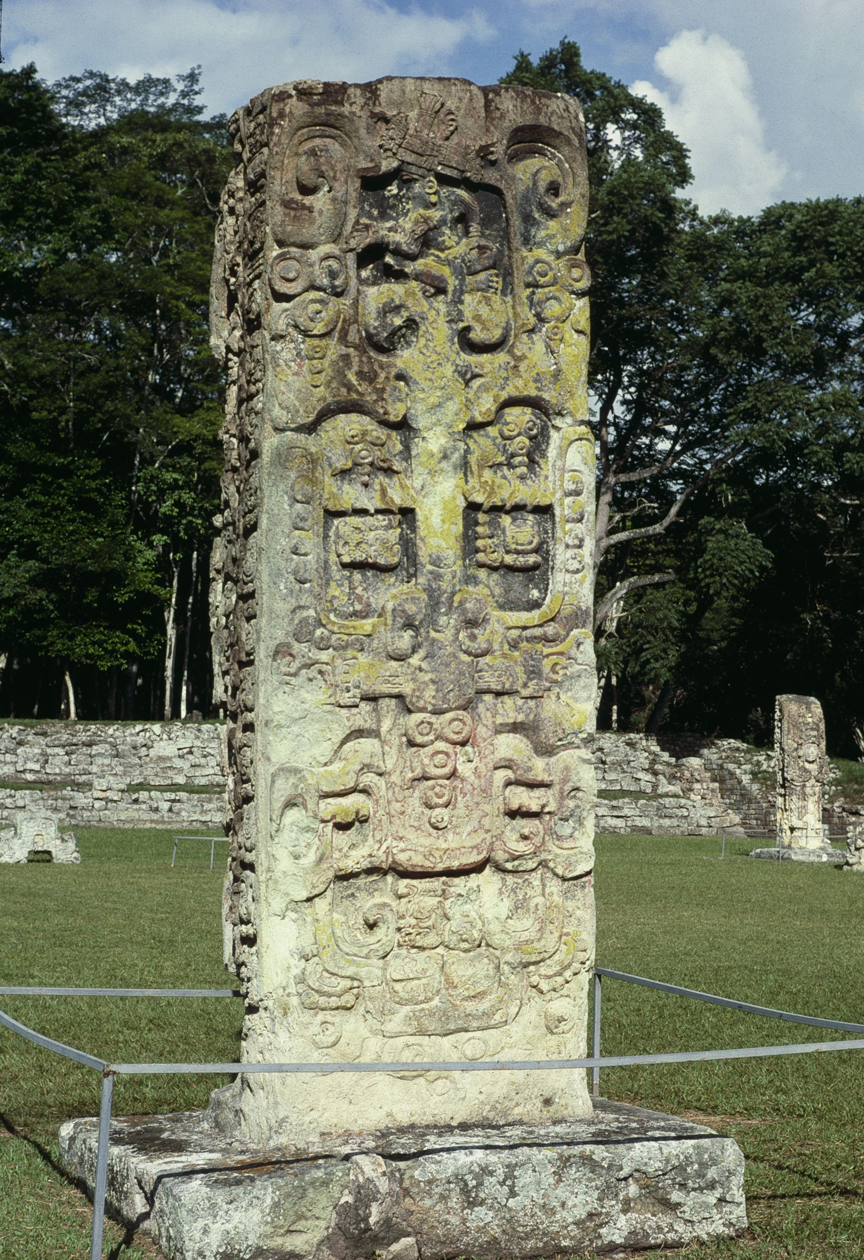 Copan, Honduras, Stela B